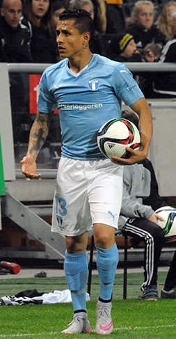 Yoshimar Yotún during the men's Fotbollsallsvenskan soccer game AIK-Malmö FF (2-1) at the Friends Arena in Solna, Sweden on 4 October 2015.